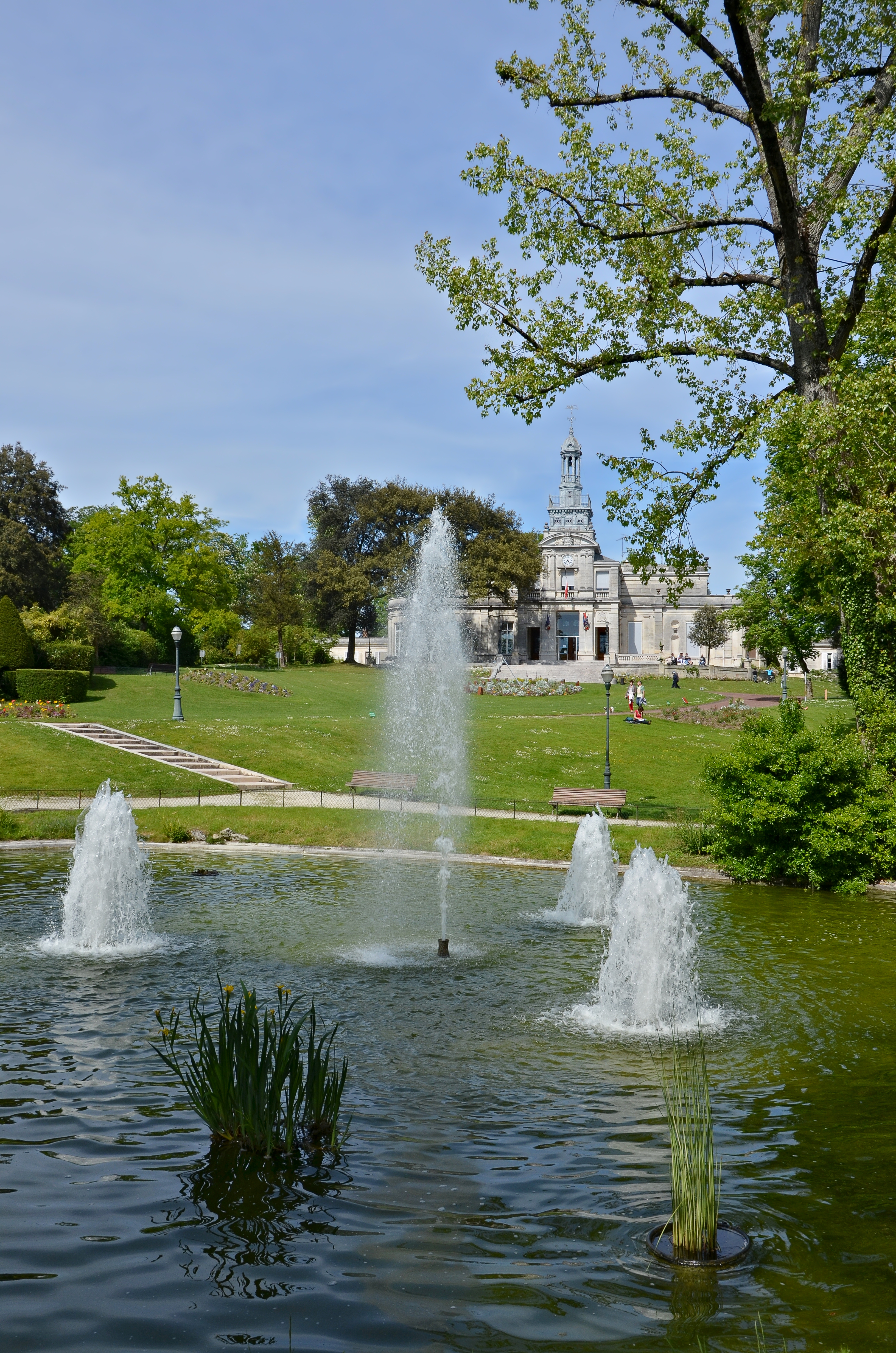 Pond and fountains, park of the town hall, Cognac, Charente, France.